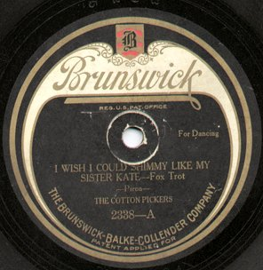 Label from Brunswick Record # 2338, side A "I Wish I Could Shimmy Like My Sister Kate" by Armand J. Piron, as played by The Cotton Pickers, a jazz band with Phil Napoleon (trumpet), Miff Mole (trombone), Jimmy Lytell (clarinet), Frank Signorelli (piano), John Cali (banjo), John Hellerberg (tuba), and Jack Roth, drums. Recorded in September of 1922.